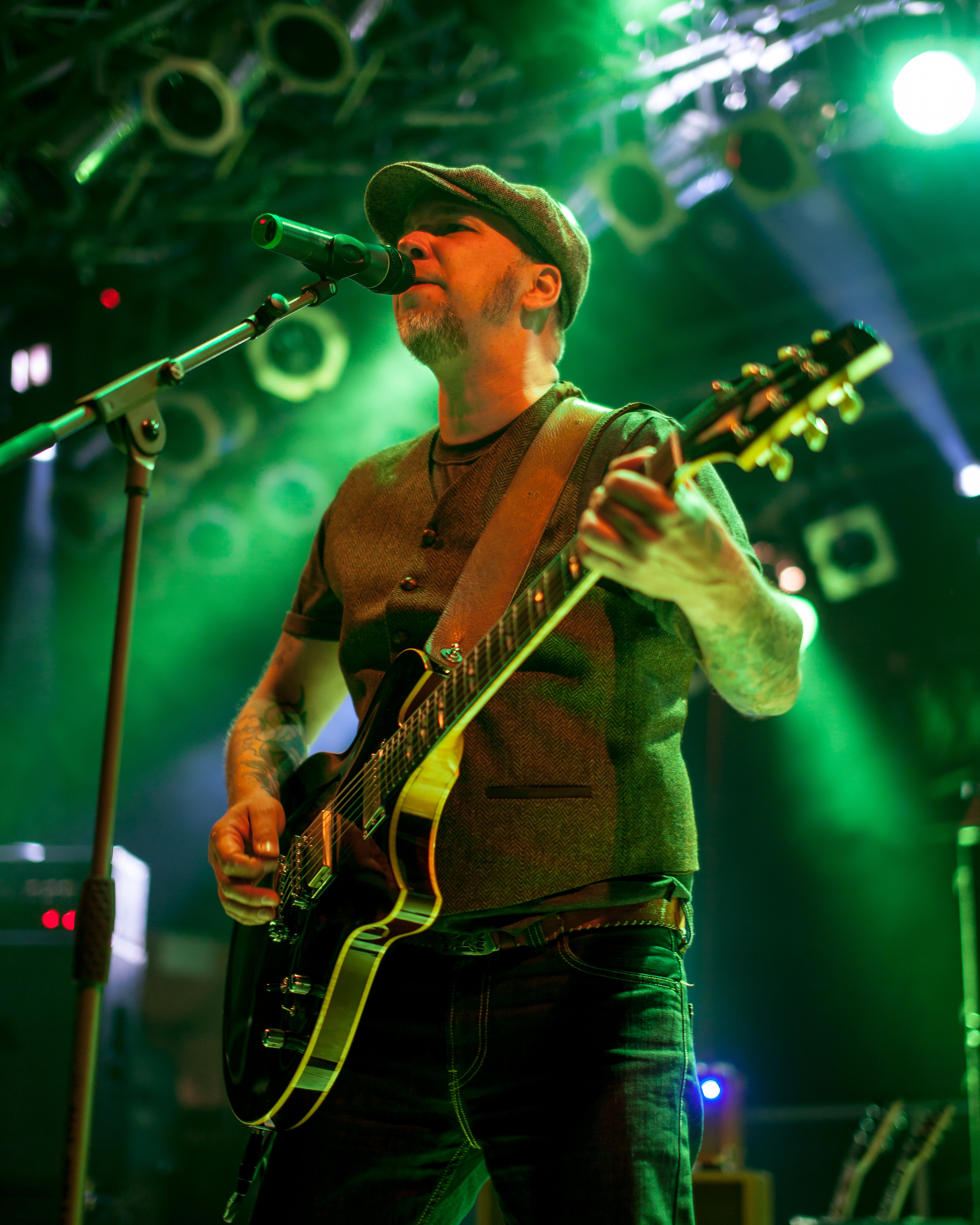 Matthias „Gonzo“ Röhr at Rock am Neckar 2012